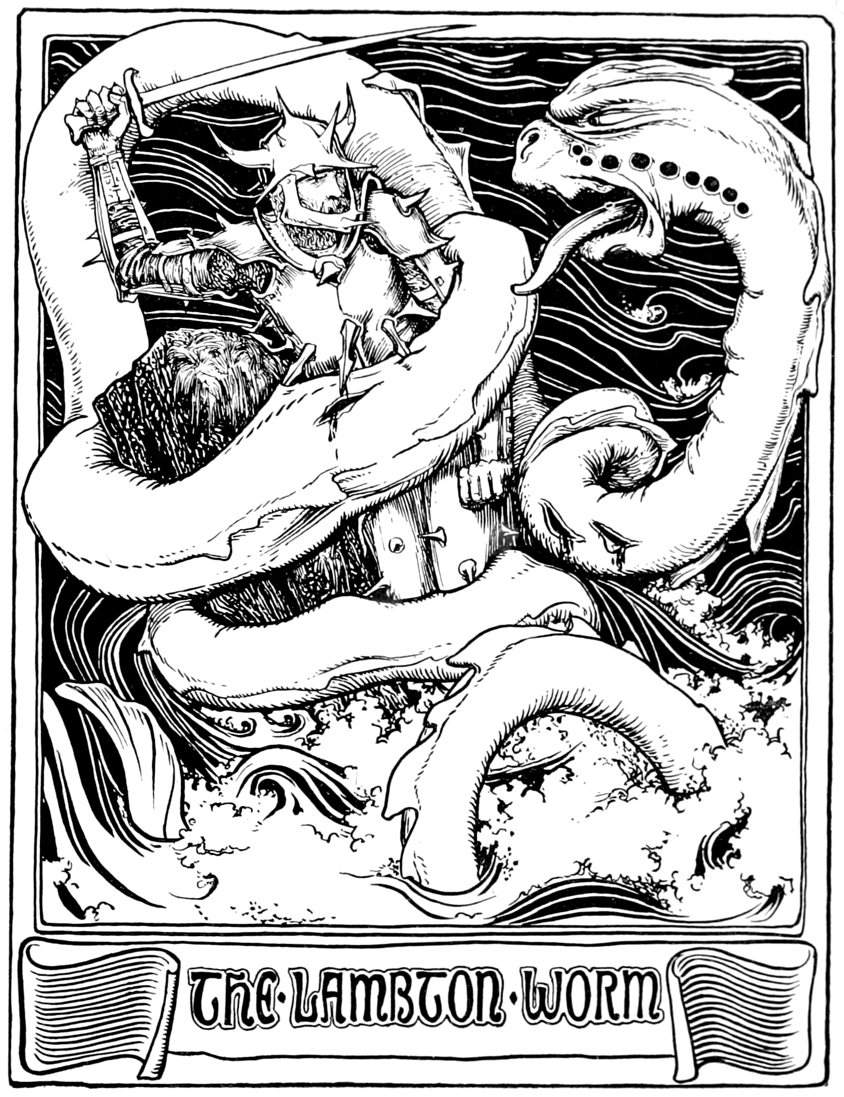 Scan illuatration on page of book in a series of fairy tales. A warning to children.